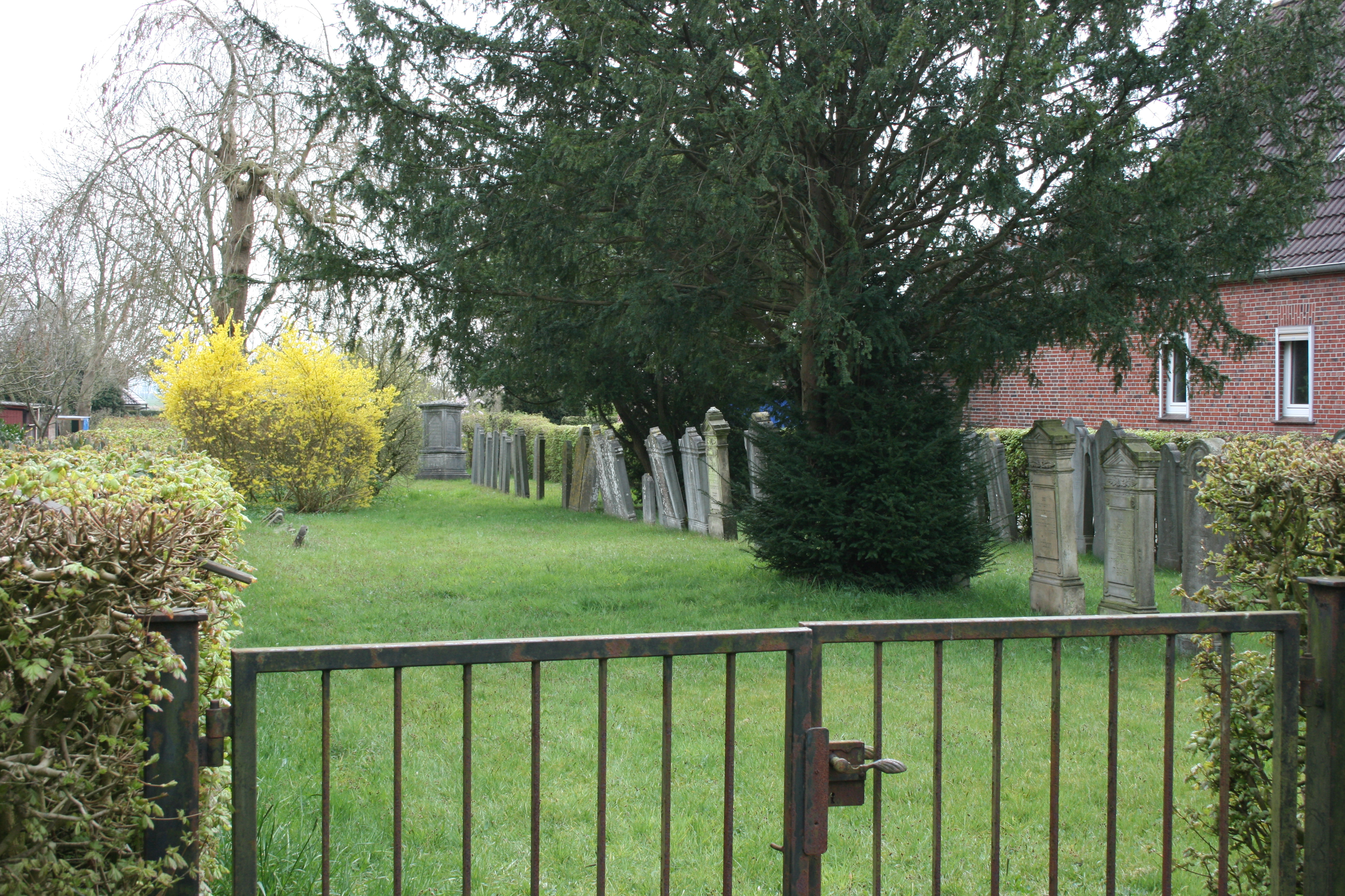 Jewish Cemeteries in East Frisia Jewish Cemetery in Weener